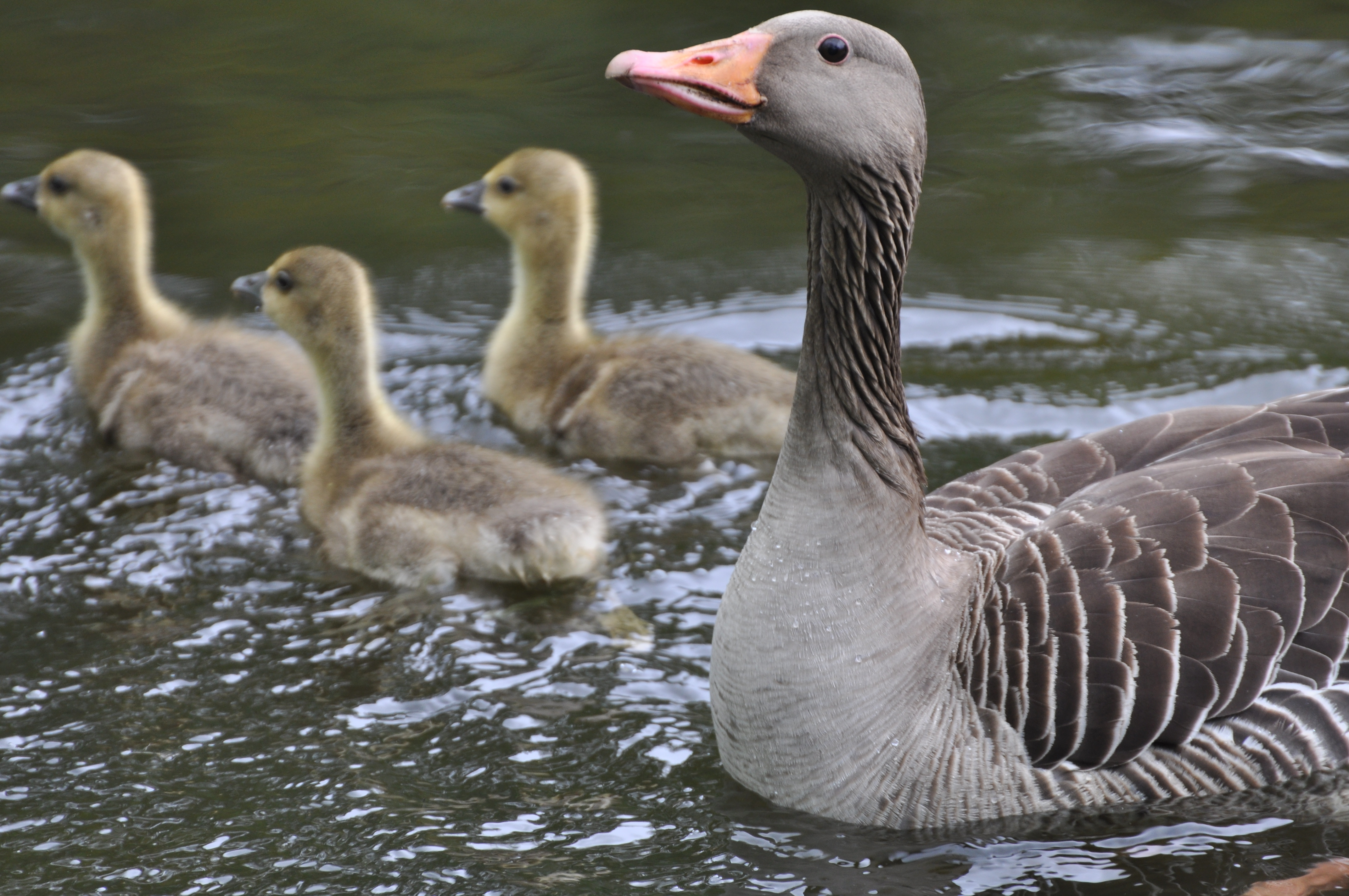 Greylag adult with chicks in Kirchwerder, Hamburg